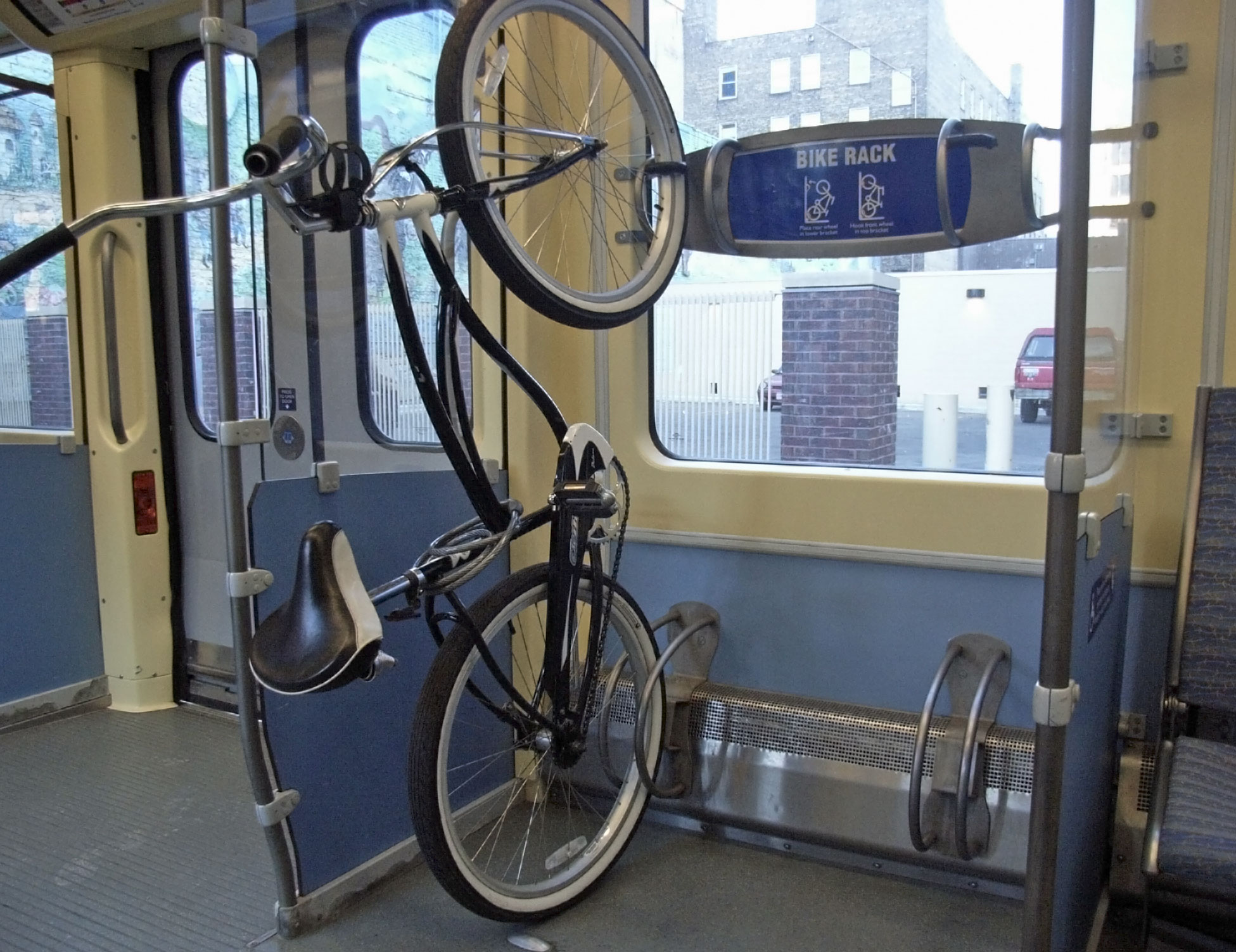 Hiawatha Line LRT Minneapolis, Minnesota "just inside the doors. Note lack of steps and sculpted seat back."